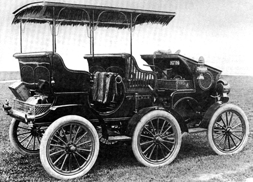 1906 Pullman six-wheeler